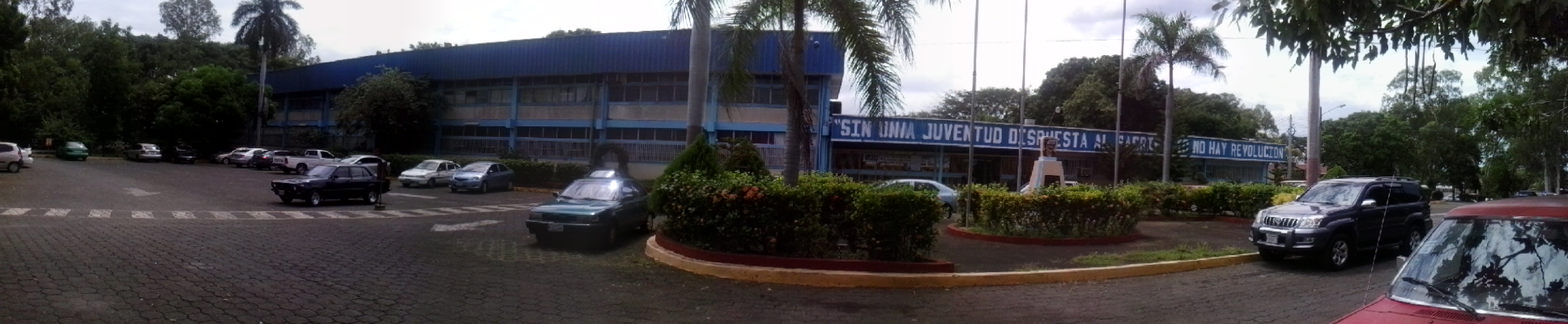 Pedro Araúz Palacios campus of the Universidad Nacional de Ingeniería in Managua, Nicaragua.